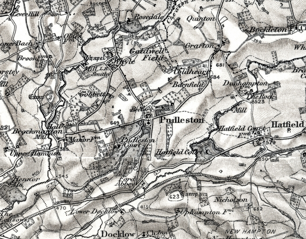 Composite of Ordnance Survey map details of Pudleston, Herefordshire, England. OS Hereford (Hills) sheet 198 - 1898, and sheet 181 Ludlow (Hills) 1899. Reproduced with the permission of the National Library of Scotland.[1]